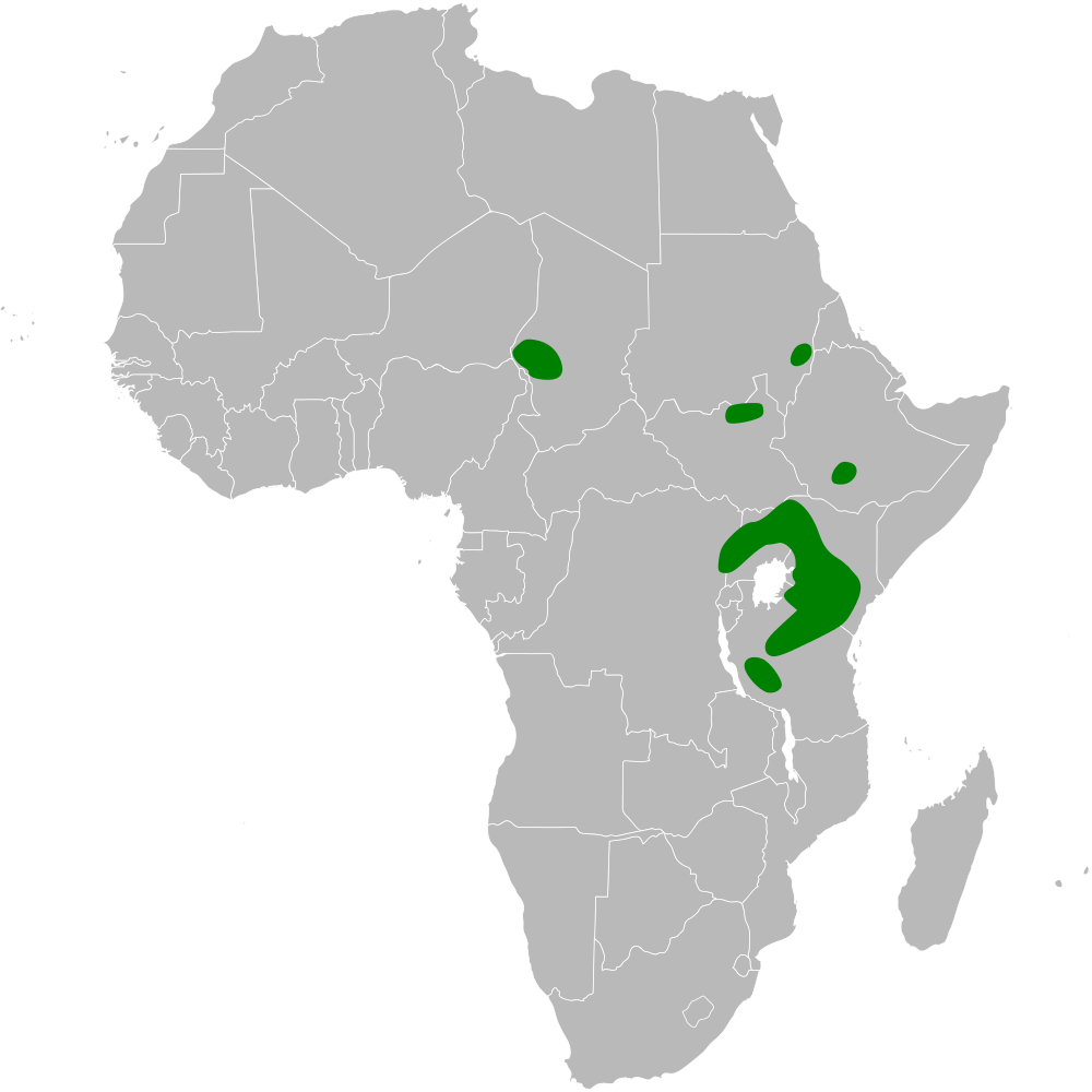 Mirafra albicauda distribution map; using BlankMap-Africa.svg, based on